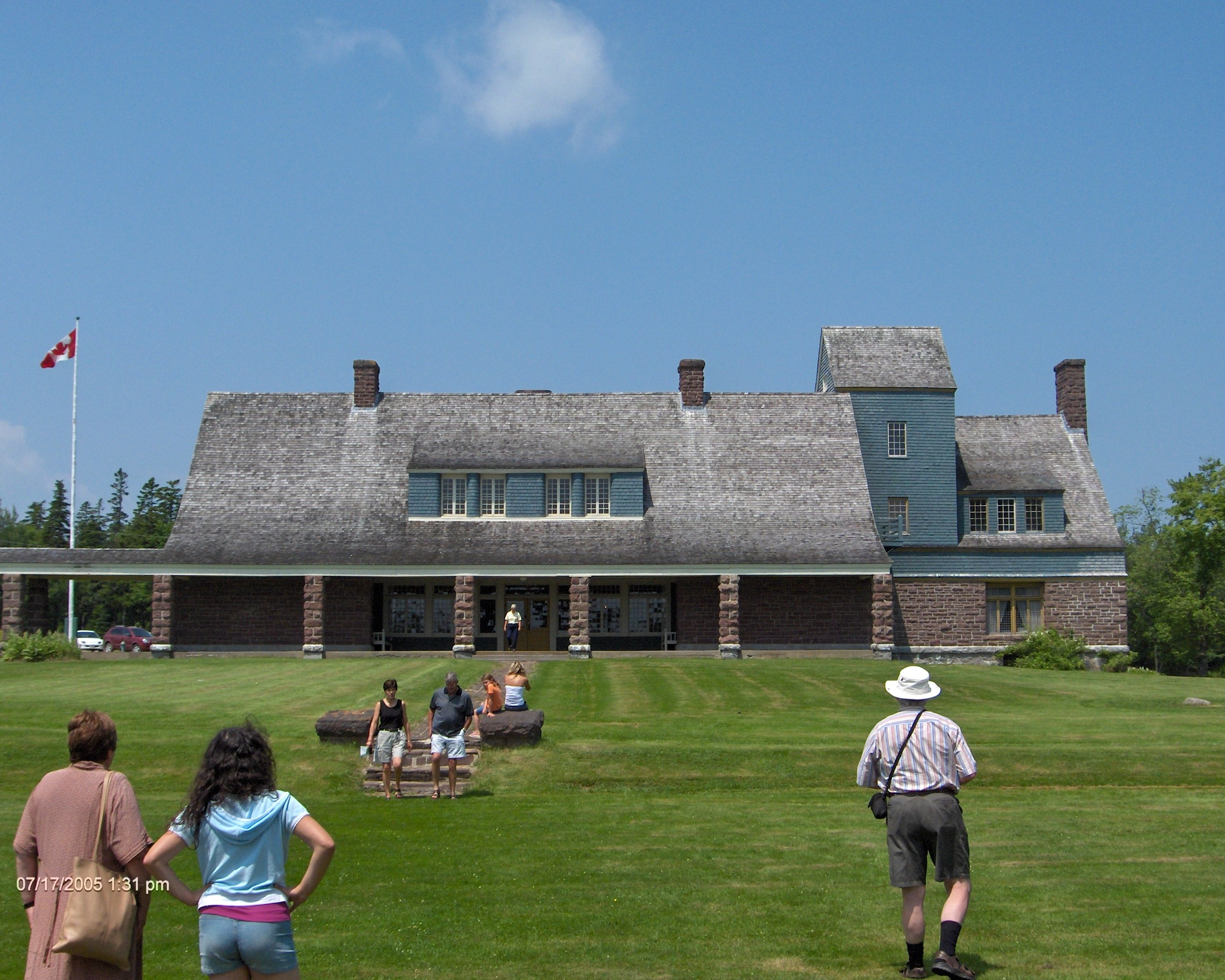 A photo of Covenhoven, the Van Horne Mansion on Minister's Island, taken by Gary Hood in 2005.